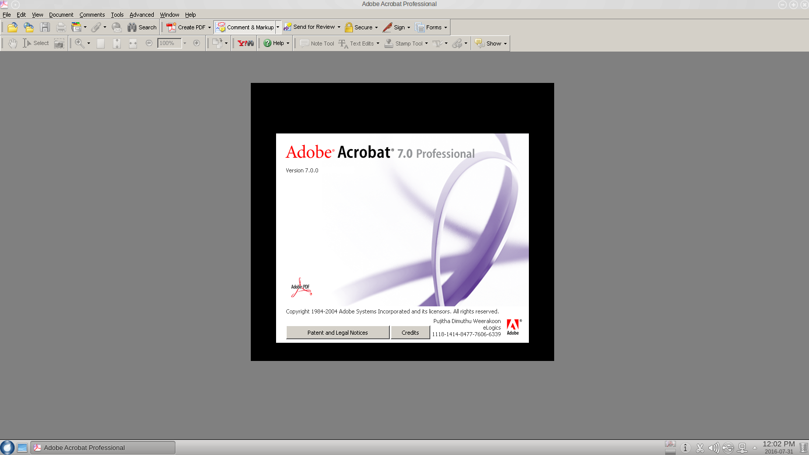 Adobe Acrobat 7.0 Professional on OpenMandriva Lx 2014.2 using Wine software